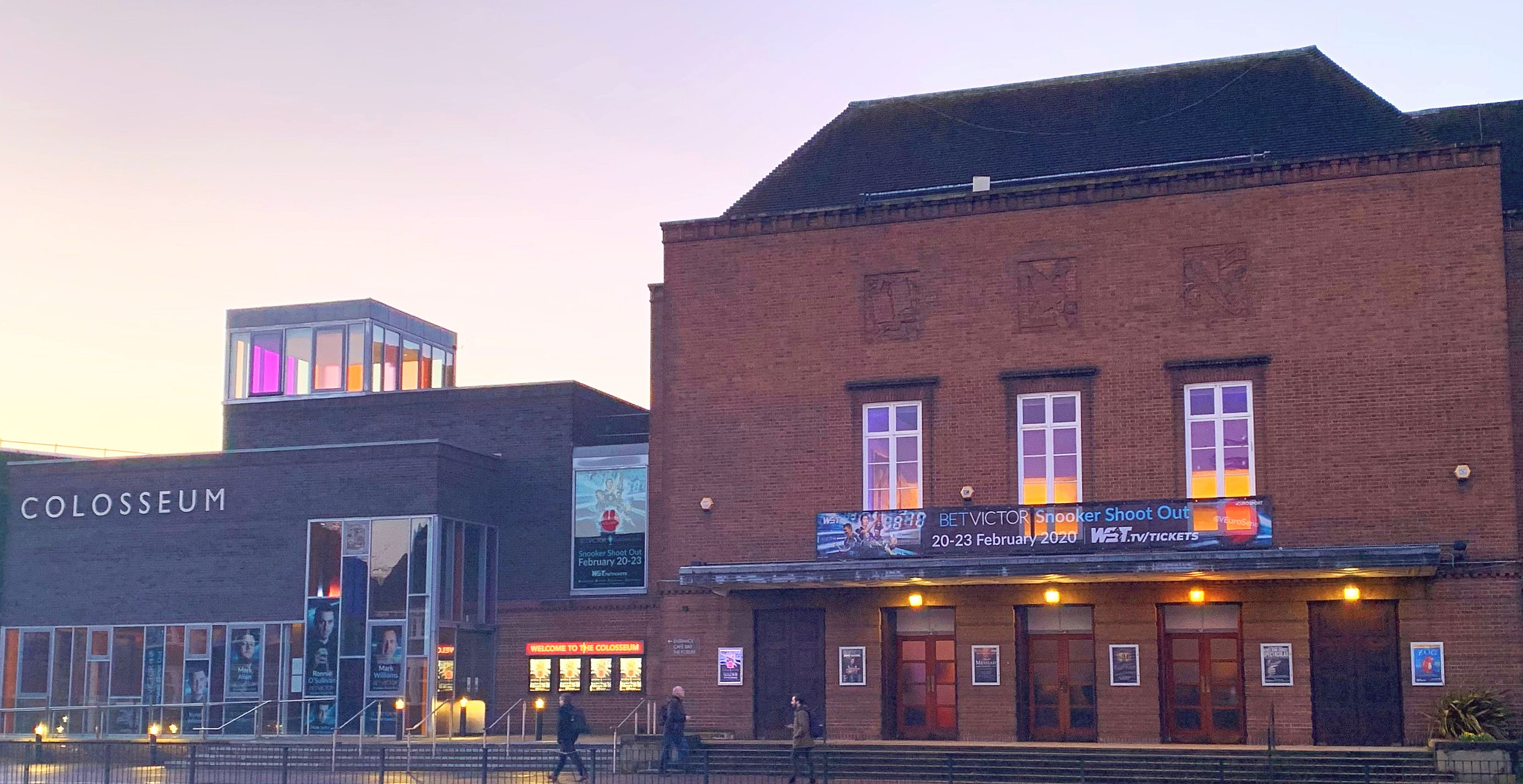 Watford Colosseum in February 2020, the venue for the 2020 Snooker Shoot Out